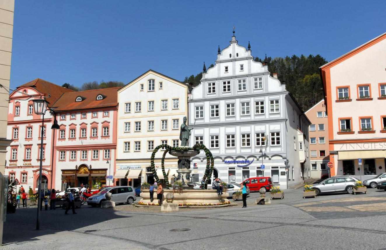 Eichstätt, market place with font Willibaldsbrunnnen